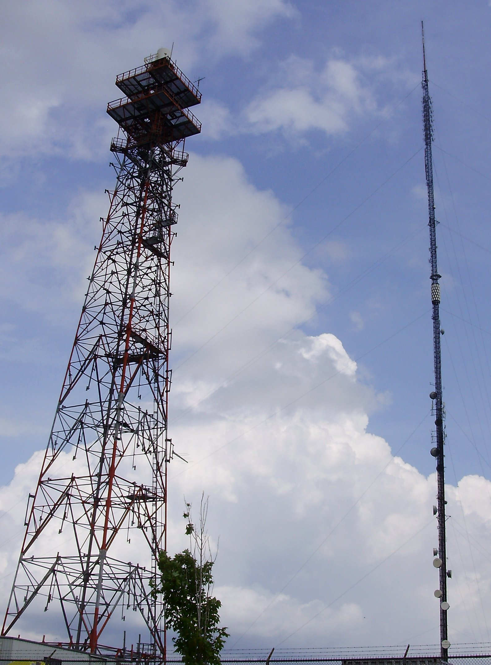 Transmission towers at the CKVR-TV television broadcasting centre in Barrie, Ontario, Canada. The station's primary transmitter, a 304-meter tall guyed mast, is on the right side of the photograph.